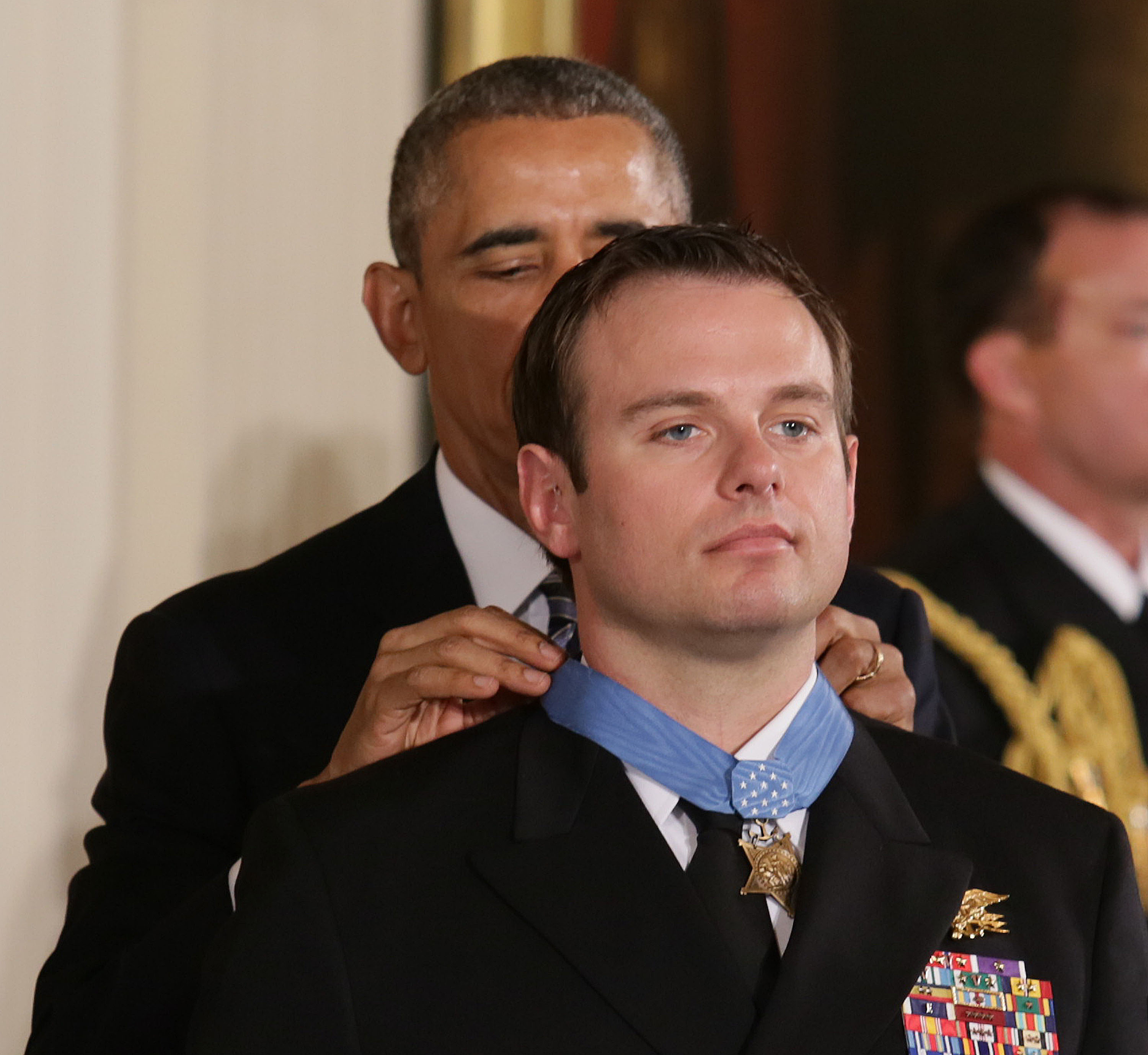 WASHINGTON (Feb. 29, 2016) President Barack Obama presents the Medal of Honor to Senior Chief Special Warfare Operator (SEAL) Edward C. Byers Jr. during a ceremony Monday, Feb. 29, 2016 at the White House. Byers received the Medal of Honor for his actions during a hostage rescue operation in December 2012. (U.S. Navy photo by Oscar Sosa/Released) 160229-N-ED767-101